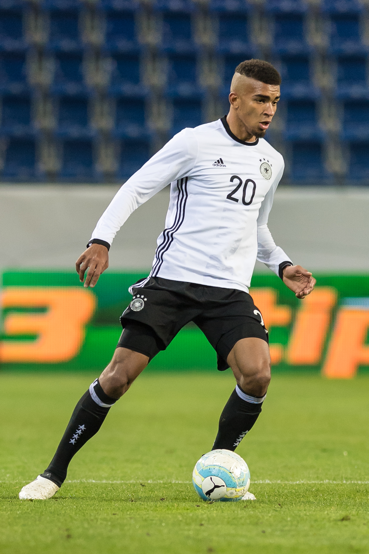 European Under-21 Championship 2017 Qualifying Round, Austria vs Germany, 11/10/2016, St. Polten